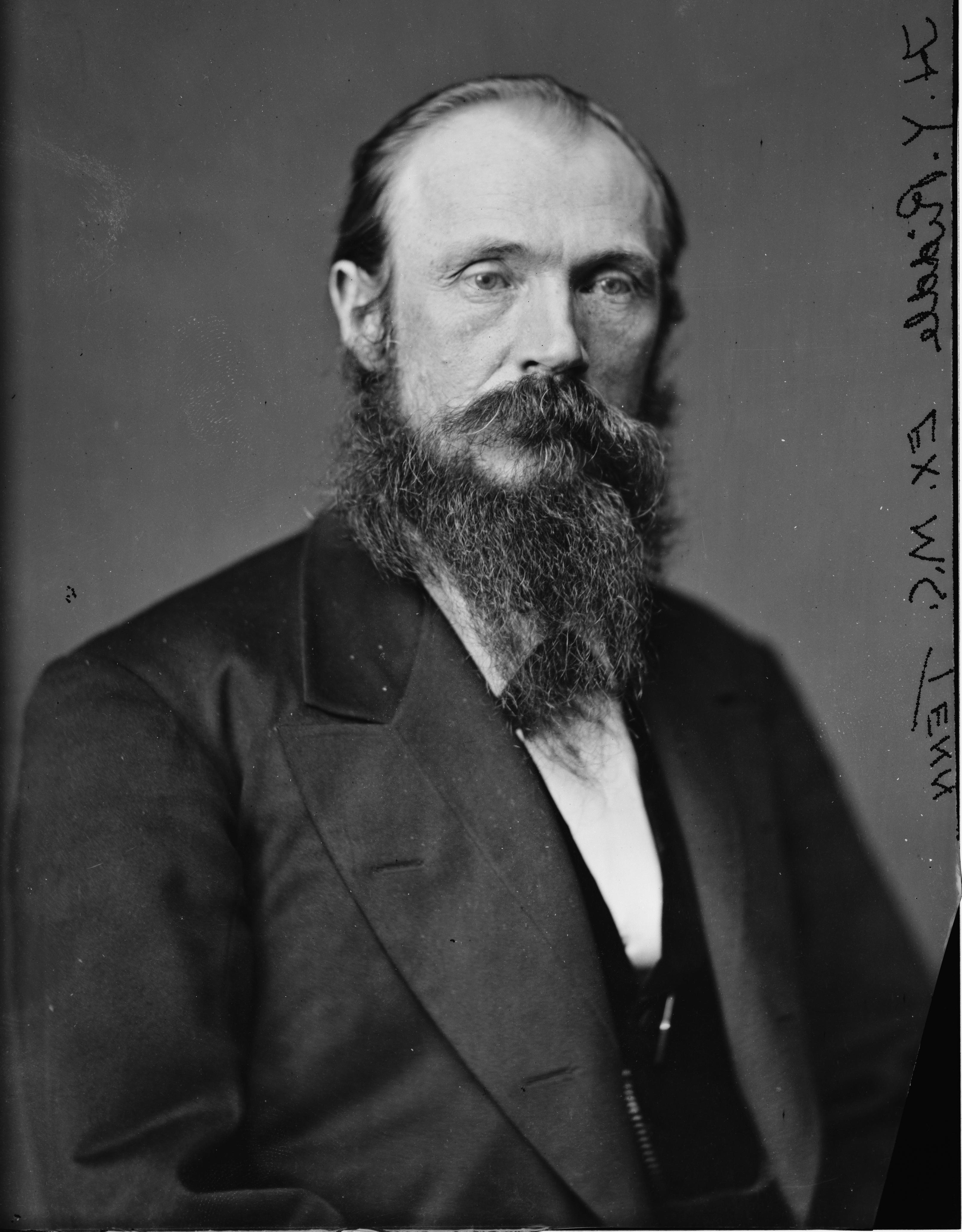 Haywood Yancey Riddle. Library of Congress description: "Riddle, Hon. Haywood Yancey of Tenn. Private in Confederate Army in 1861. The last years on the staff of General Wright and Mackall".